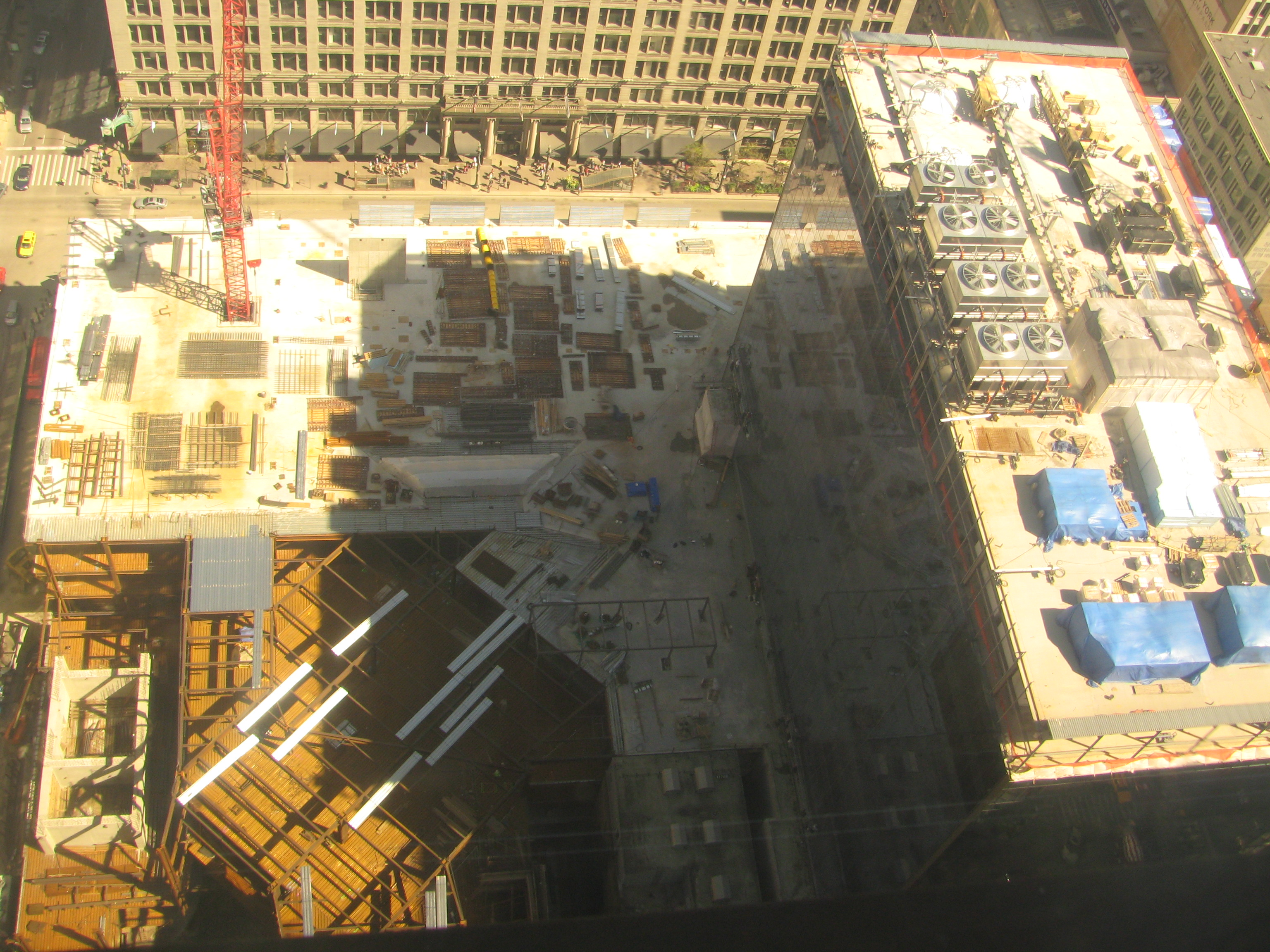 en:108 North State Street